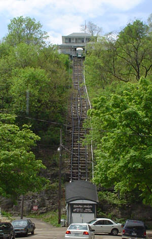 The Fourth Street Elevator in Dubuque. This photo was taken in May of 2004. This photo shows the entire railway from 4th Street.